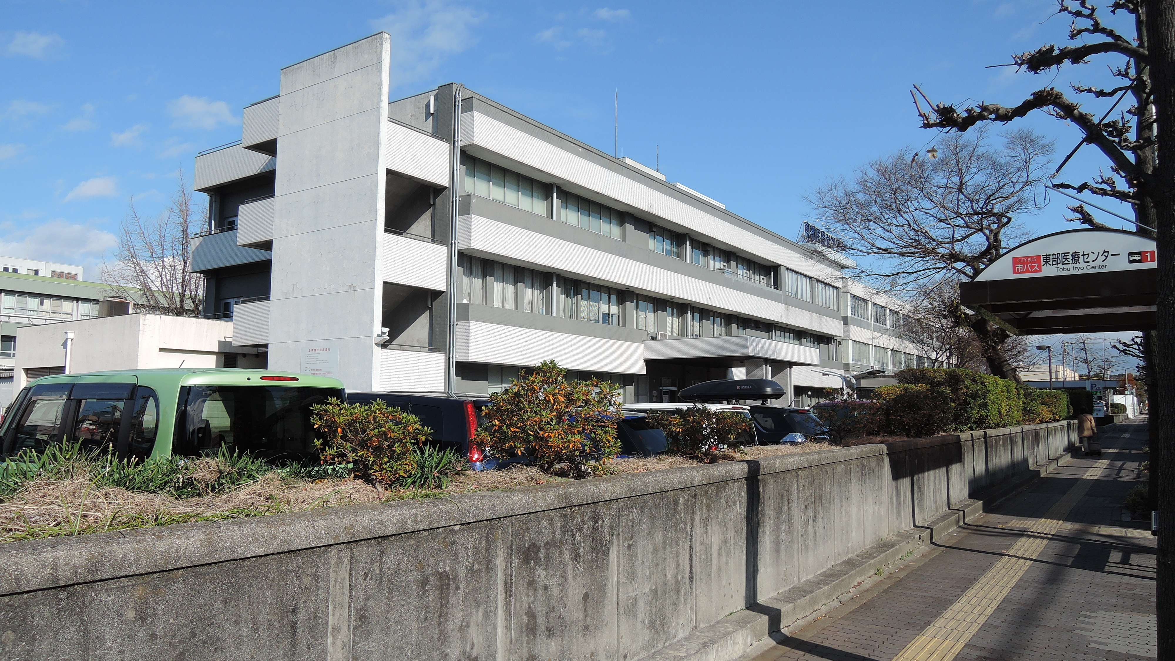 Nagoya city East Medical center,Aichi prefecture, Japan